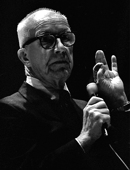 Buckminster Fuller, 1972-3 tour at UC Santa Barbara.